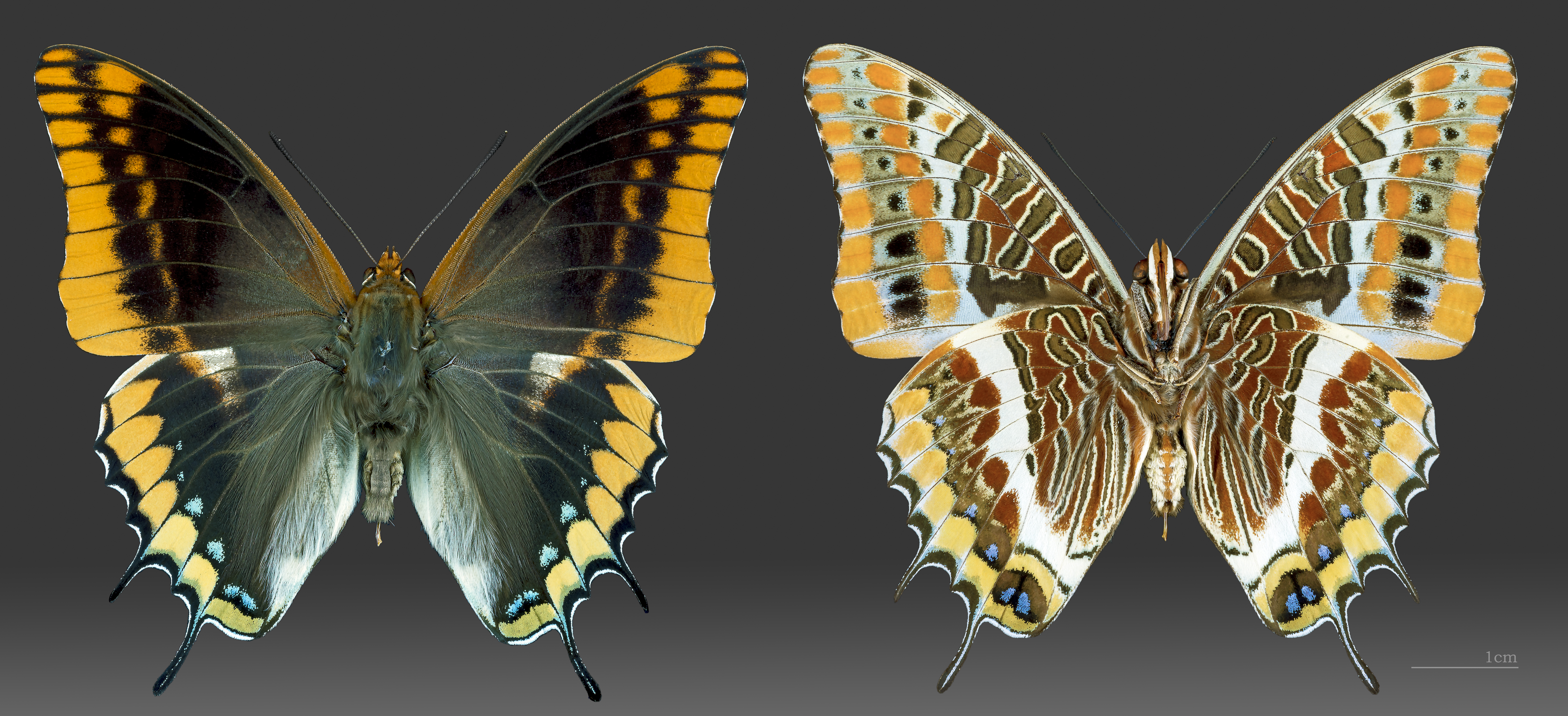 Foxy Emperor (Charaxes jasius) - Two views of same specimen